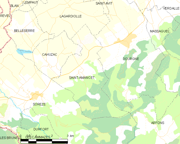 Map of French municipality Saint-Amancet